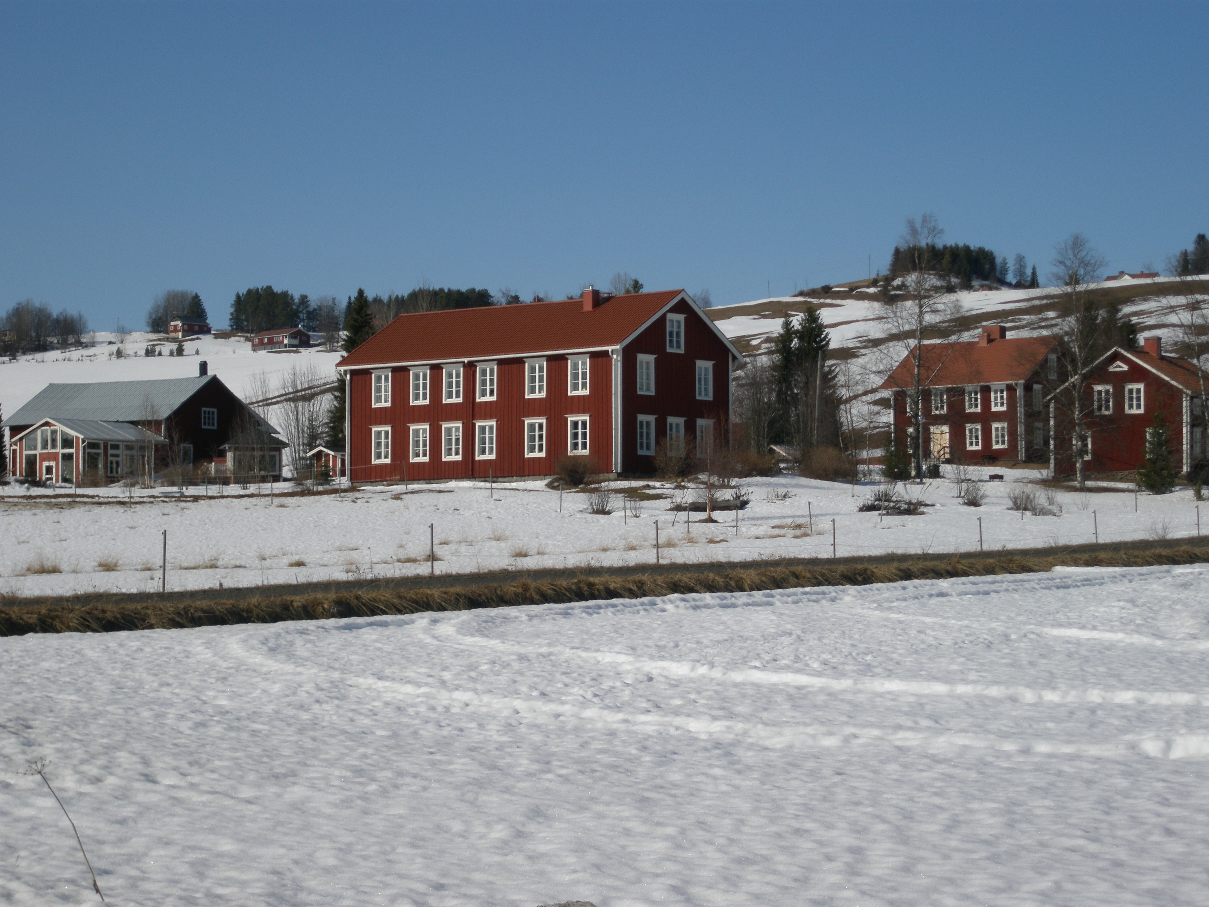 Åflo, Offerdal, Krokom, Jämtland, Sweden.